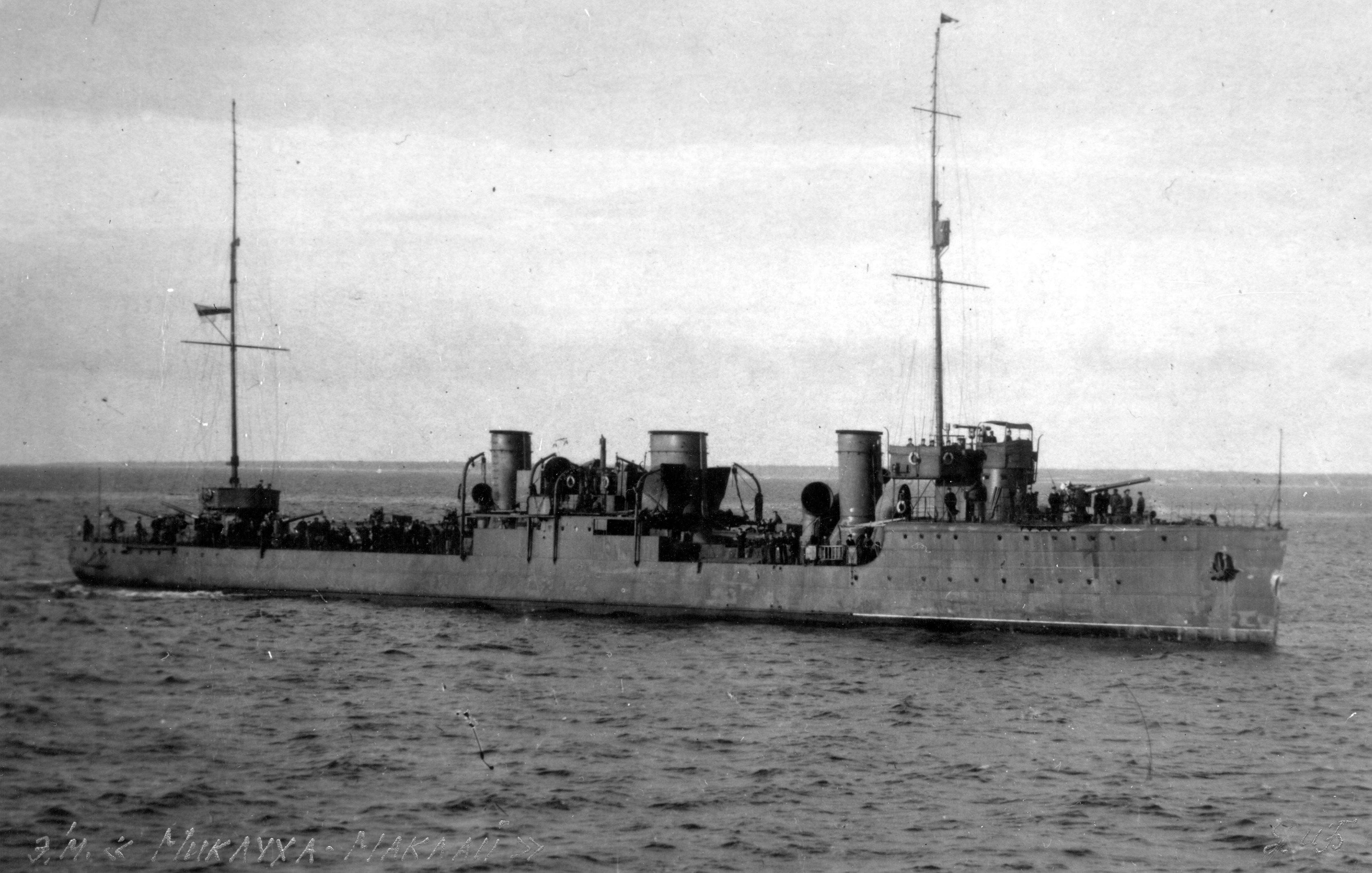 Russian destroyer Kapitan I ranga Miklukho-Maklai.